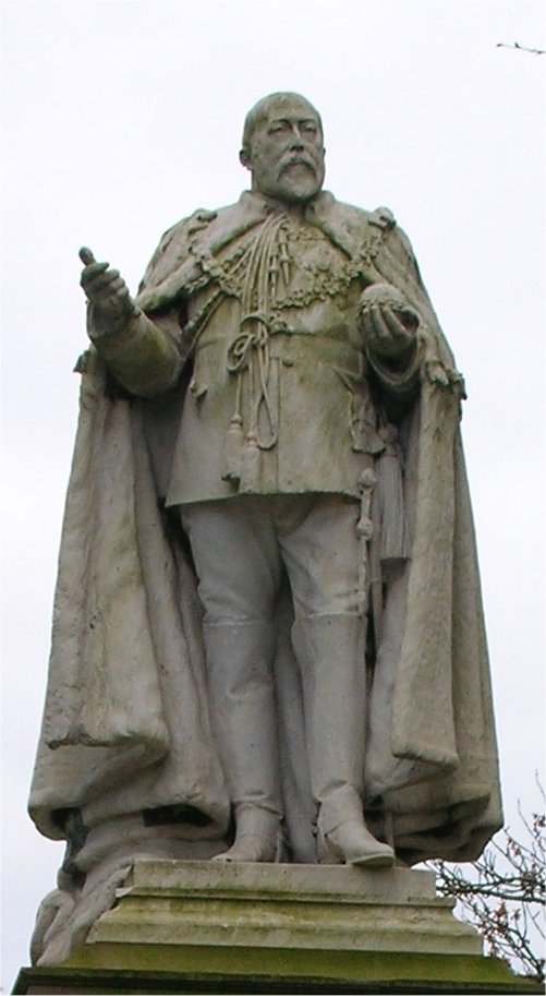 The King Edward VII Memorial is a Grade II listed sculpture in memory of King Edward VII by sculptor Albert Toft, photographed in Highgate Park, Birmingham, England. It was made of Carrara marble and unveiled in 1913 in Victoria Square, although later moved to Highgate Park and then to Centenary Square. Photographed by me in Highgate Park 9 April 2007. Oosoom